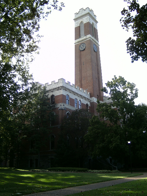 Recent Kirkland Hall photograph.